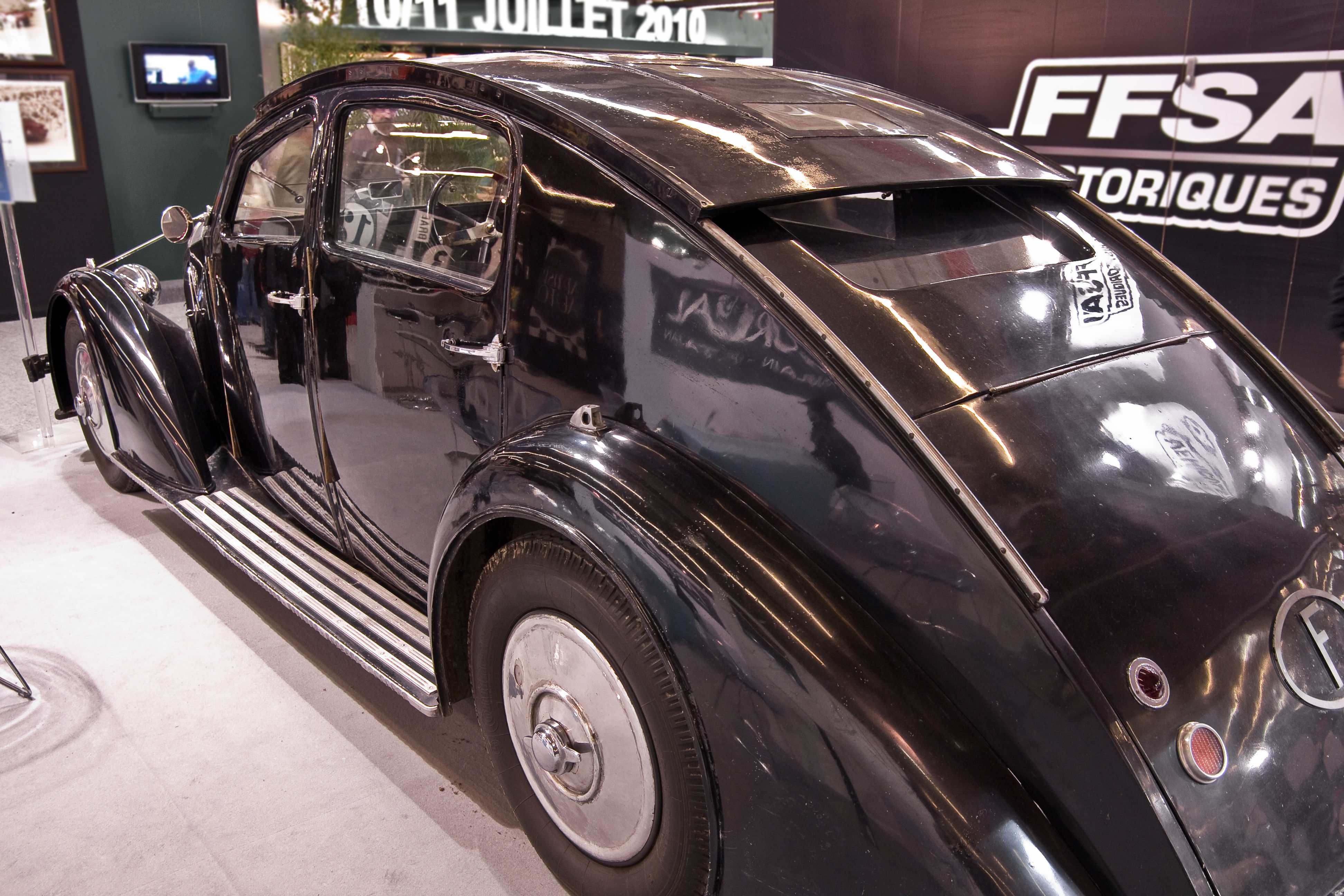 1935 Avion Voisin C25 Aérodyne (french car of 1930).